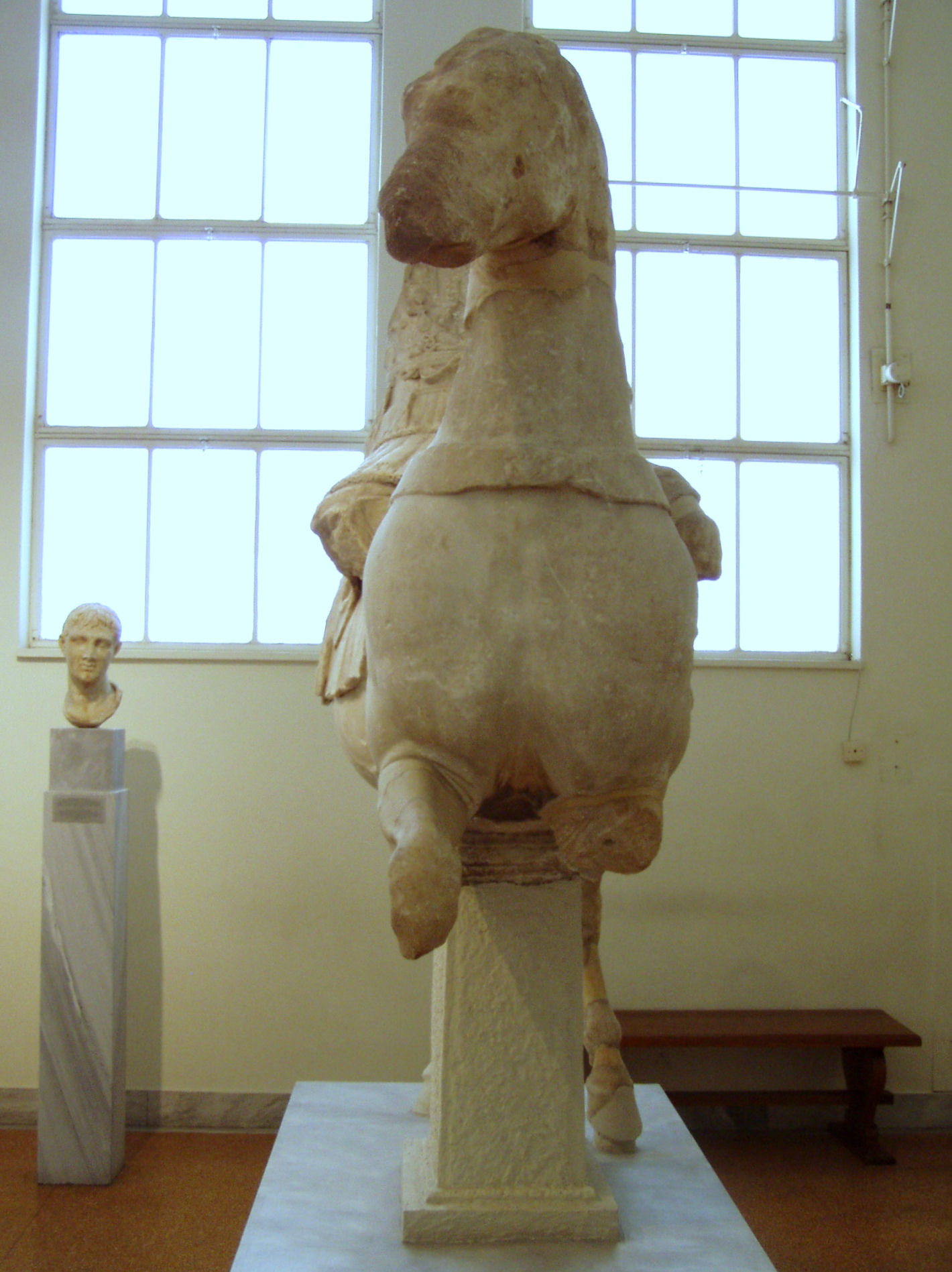 Statue of a equestrian officer wearing a corselet at the NAMA, Nr 2715.